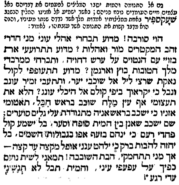 A scan of Löwisohn's rough translation of the monologue "Are at this hour asleep!... Uneasy lies the head that wears a crown" from Henry IV, Part 2. This is the first ever translation of Shakespeare to Hebrew, published in his book Melitzat Yeshurun, Vienna 1816.